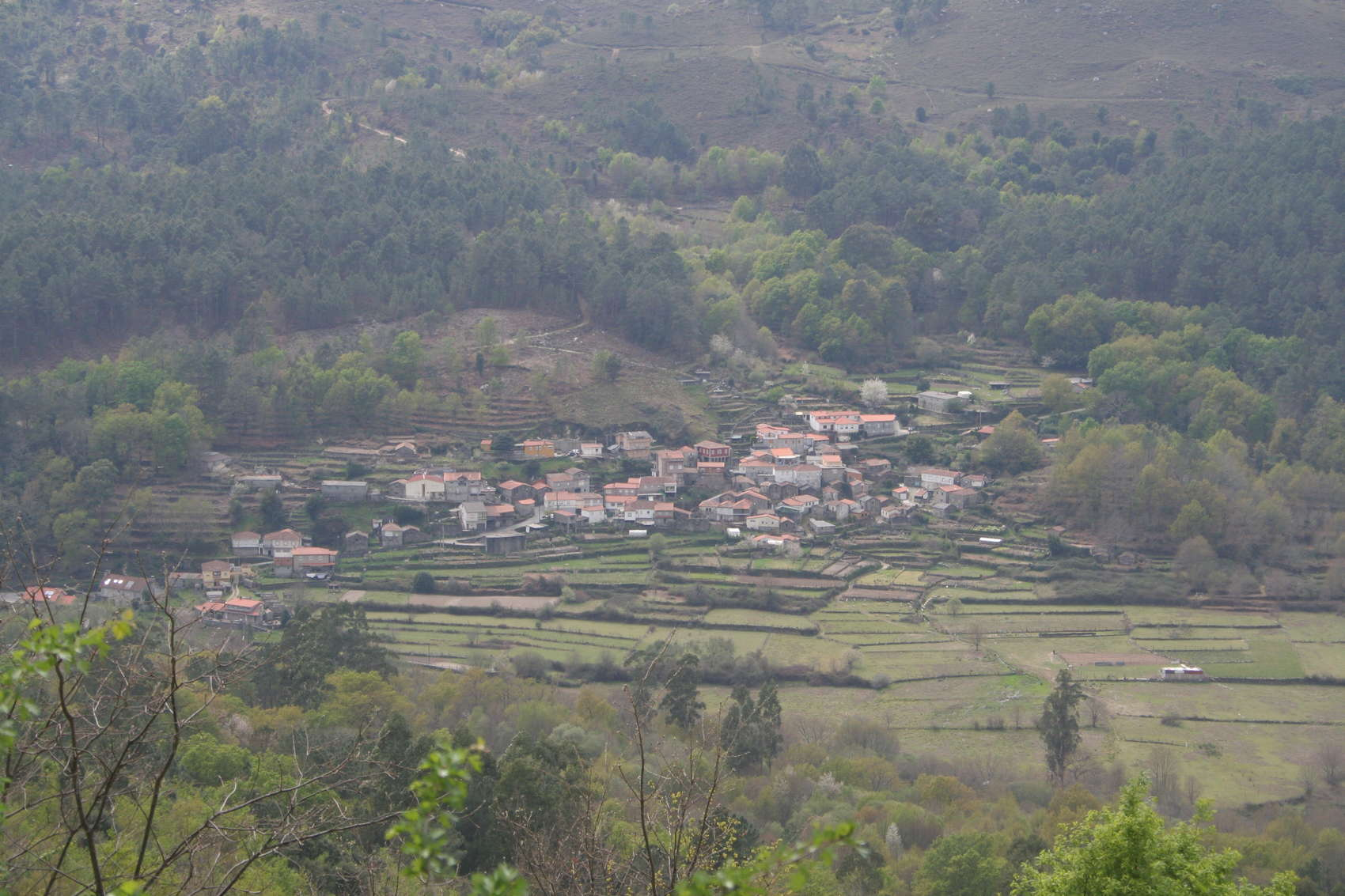 Bubaces, Río Caldo, Lobios (Spain)